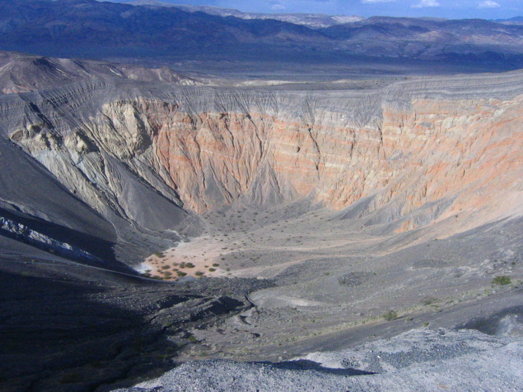 Description : Ubehebe Crater, Death Valley, California (USA) Author : own work, Urban. I took this picture on April 2006.